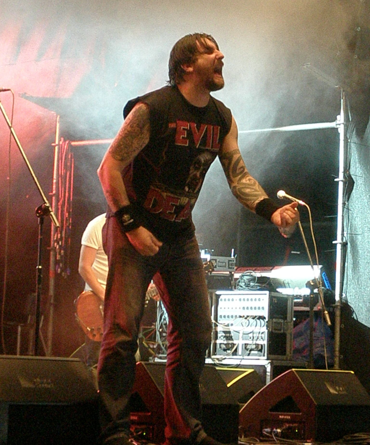 Ben Ward performing on Globaltica World Culture Festival in Gdynia, Poland